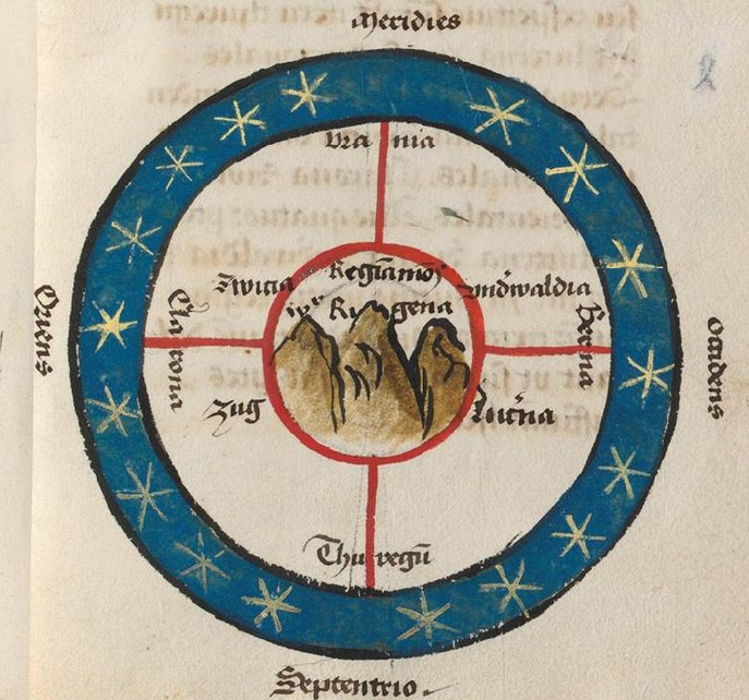 diagrammatic "map" of the Swiss Confederacy